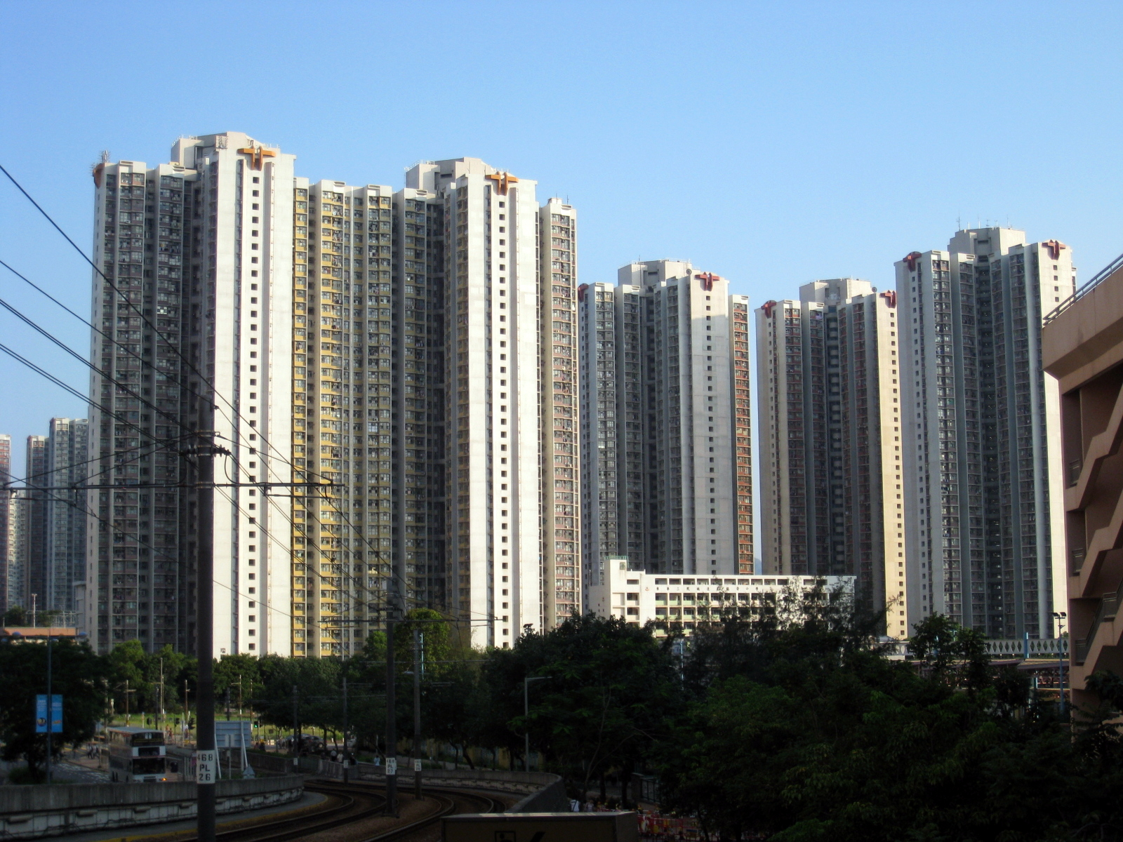 Tin Shui Estate Phase I